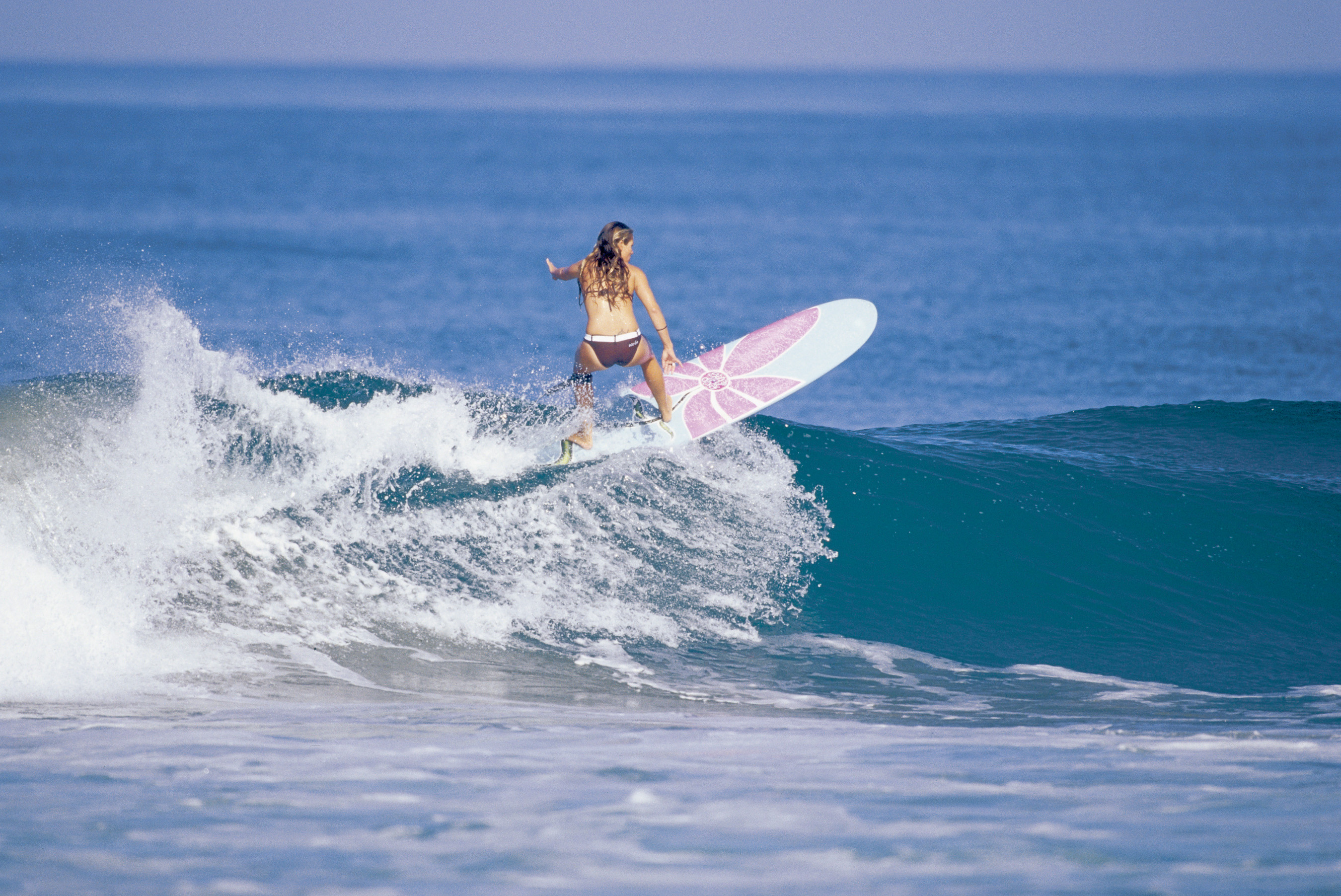 Amazing!